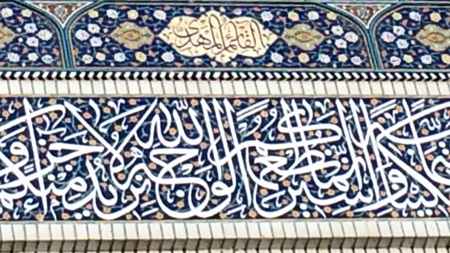 The name al-Qaim al-Mahdi written in Arabic in Imam Reza's holy shrine in Mashhad.